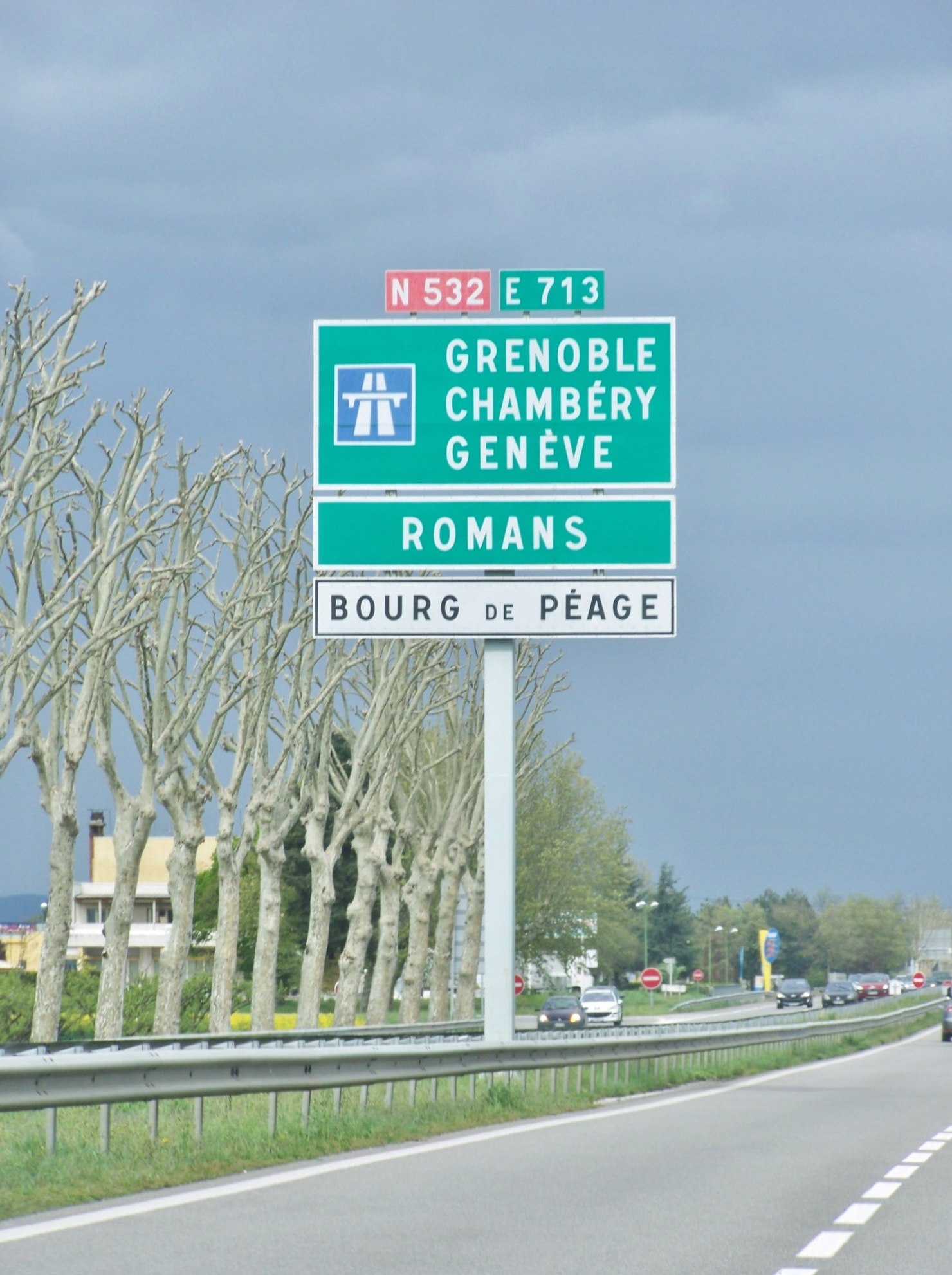 French RN 532 national road to Grenoble when leaving Valence in the department of Drôme.